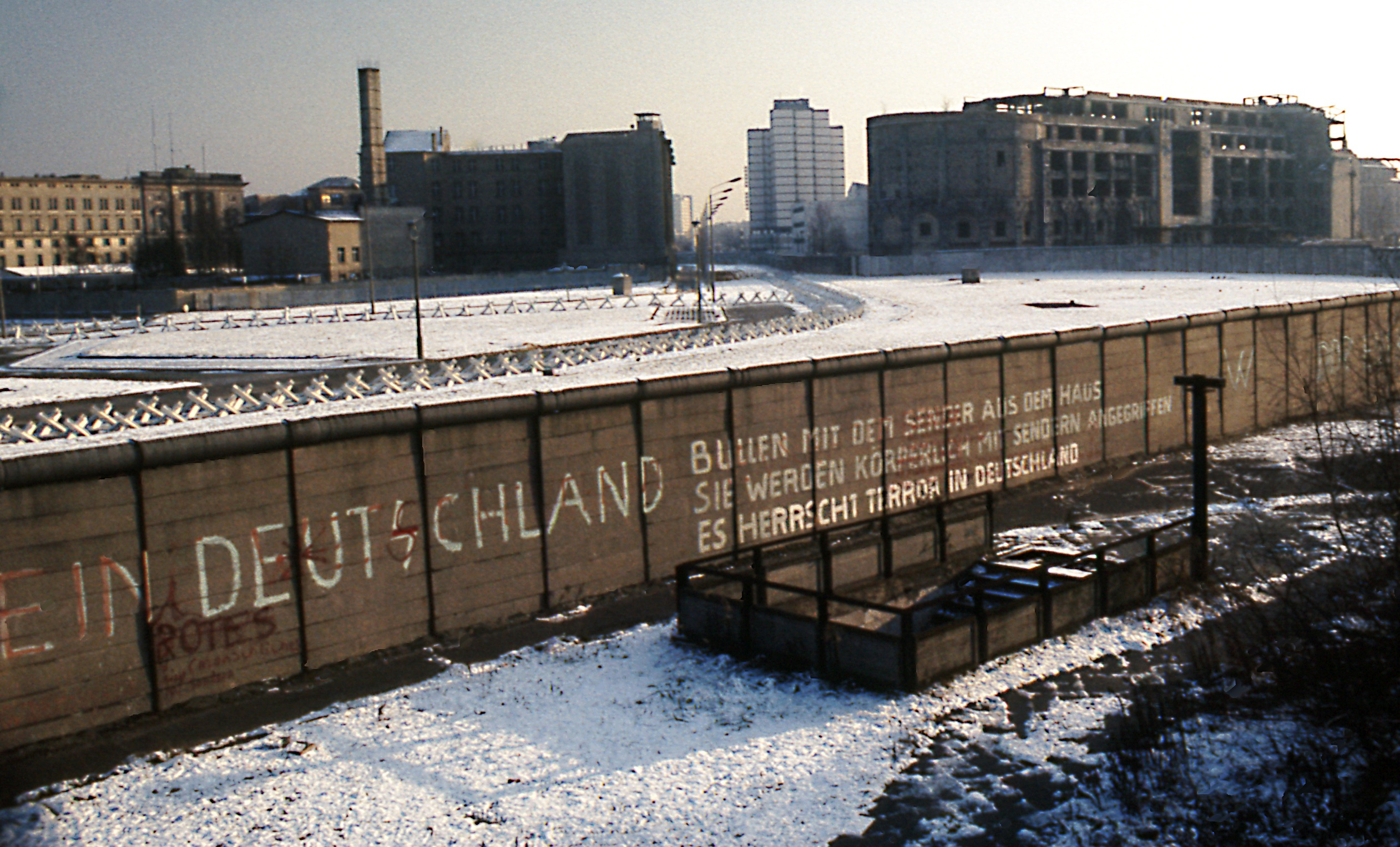 Berlin Wall at the Potsdamer Platz 1975 looking southeastwards into Stresemannstraße. To the very left the rear wing of the Preußisches Herrenhaus, mid-left are mostly buildings on the Stresemannstraße, such as the bldg Stresemannstraße 128 (with firewall and watch tower on the roof), to the right "Haus Vaterland". Before the Wall the entrance to the Potsdamer Platz subway-station (abandoned at that time)